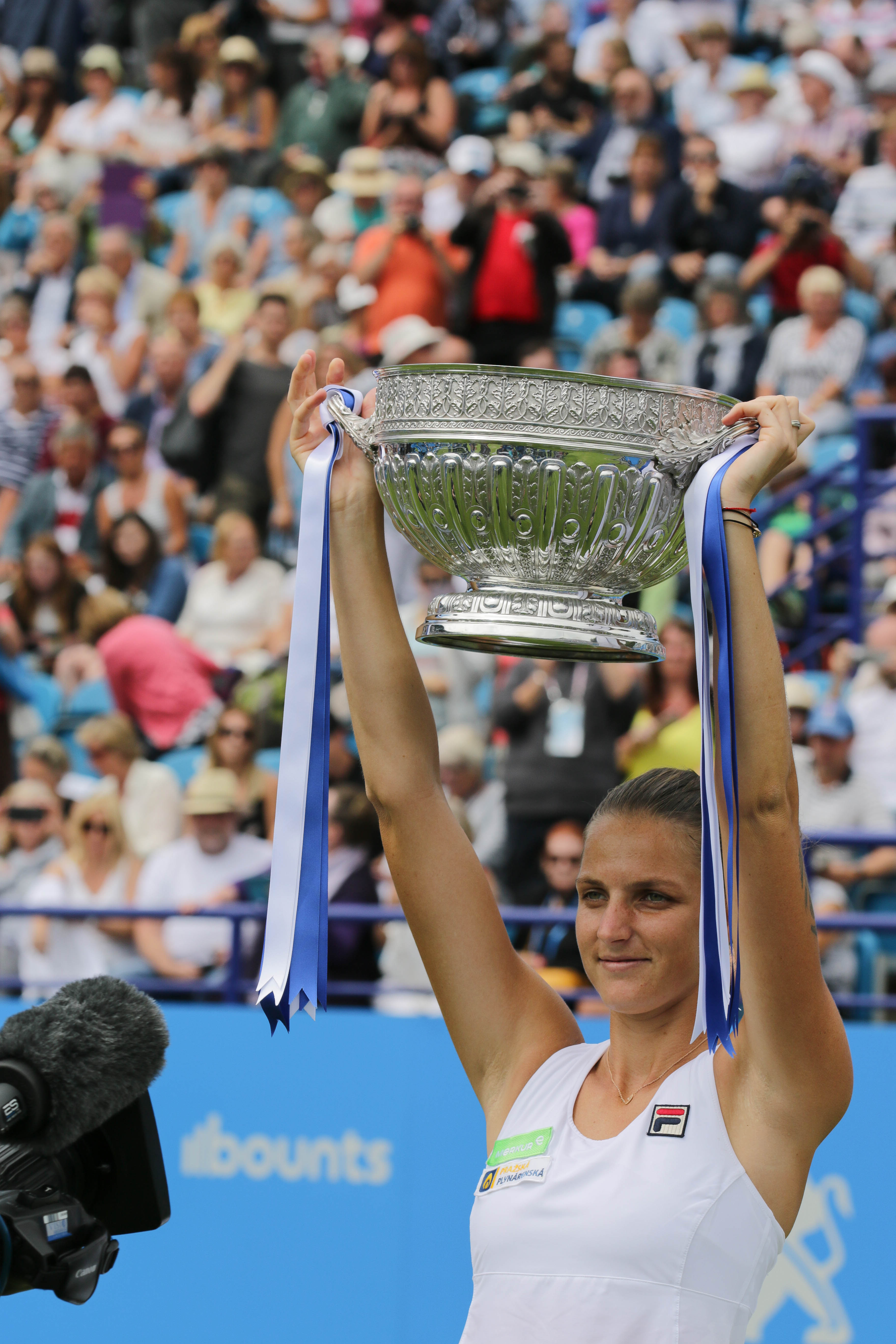 Aegon International Women's Final 2017 Pliscova v Wozniacki-906.jpg